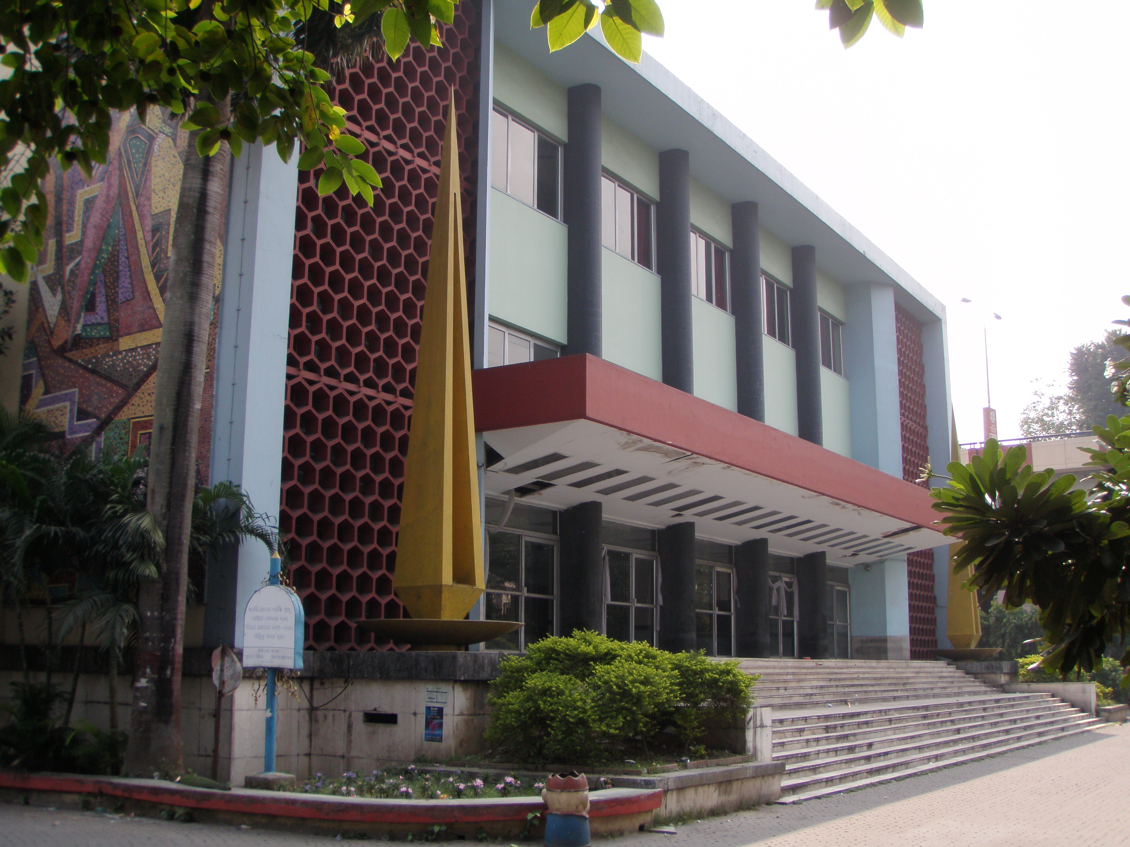 Rabindra Sadan, the West Bengal Government run auditorium.